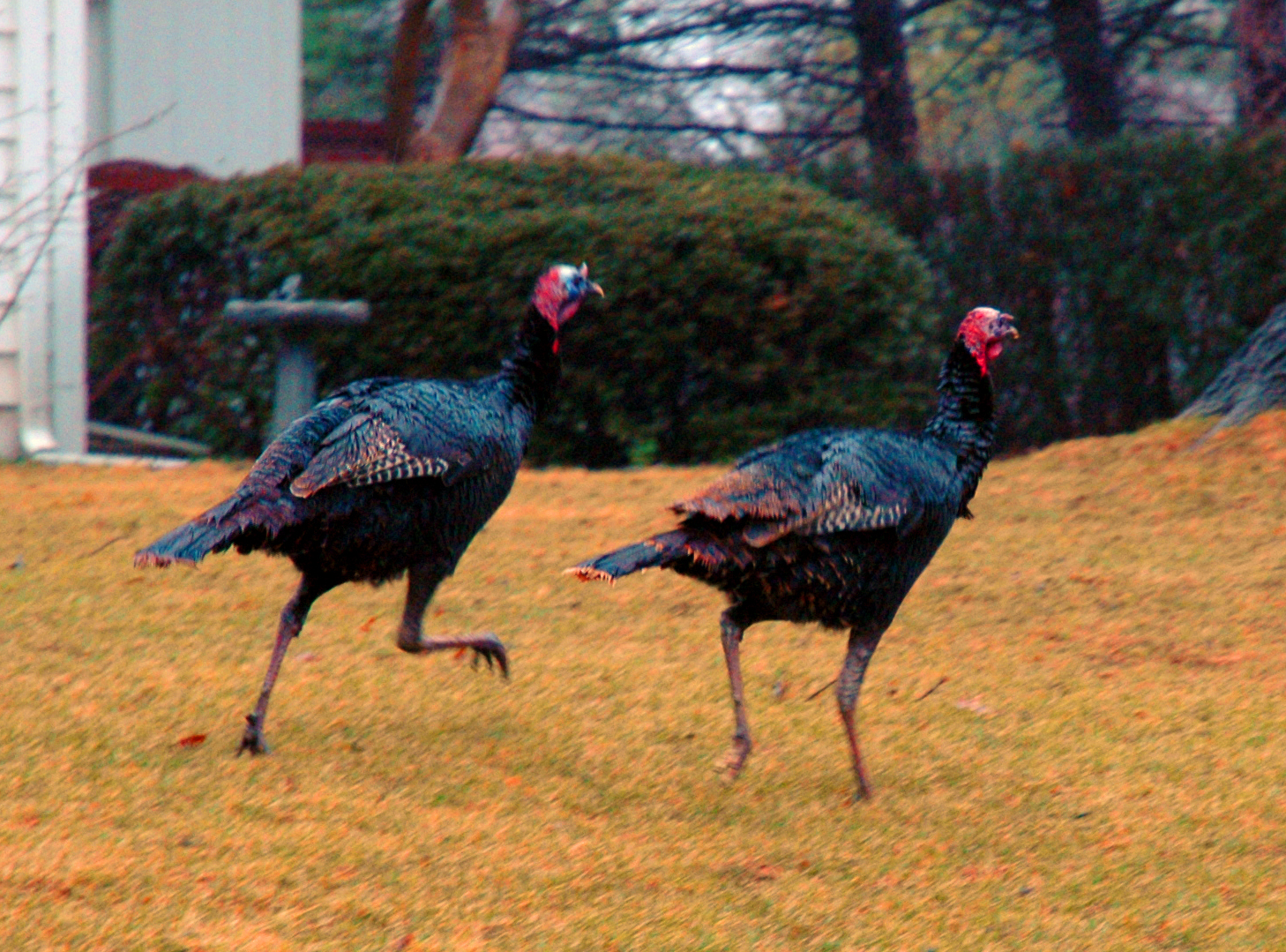 Turkeys running across a lawn in midtown Omaha, Nebraska (cropped from Image:Turkeys running.jpg). Date: February 13, 2005 12:32pm 6